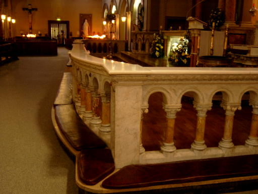 altar rails in a Roman Catholic Church. No copyright. Image taken by me with agreement of church authorities